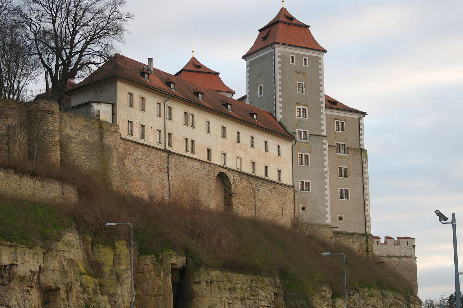 Castle Mladá Boleslav, 1/55 Staroměstské Square, Mladá Boleslav, Mladá Boleslav District, Central Bohemian Region. View from Ptácká street.